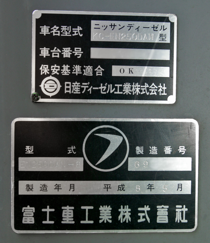 Makers plates of Nissan Diesel and Fuji Heavy Industries, Type KC-EN250DAN(-8).